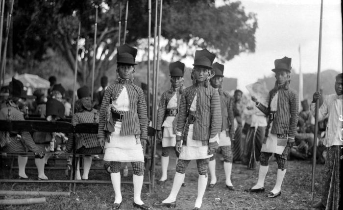 Bodyguards of the sultan of Yogyakarta